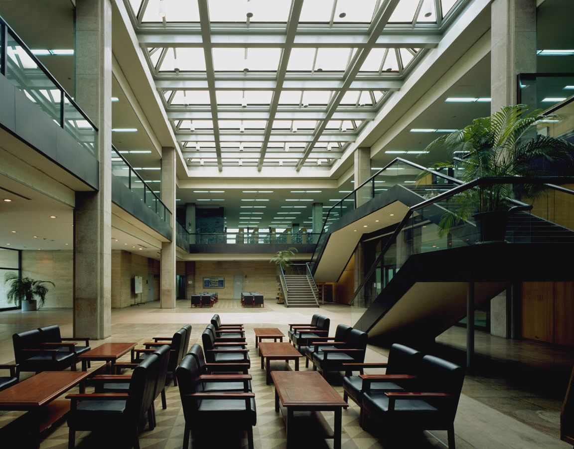 Seoul, Korea Military Academy Library, 1980-1982